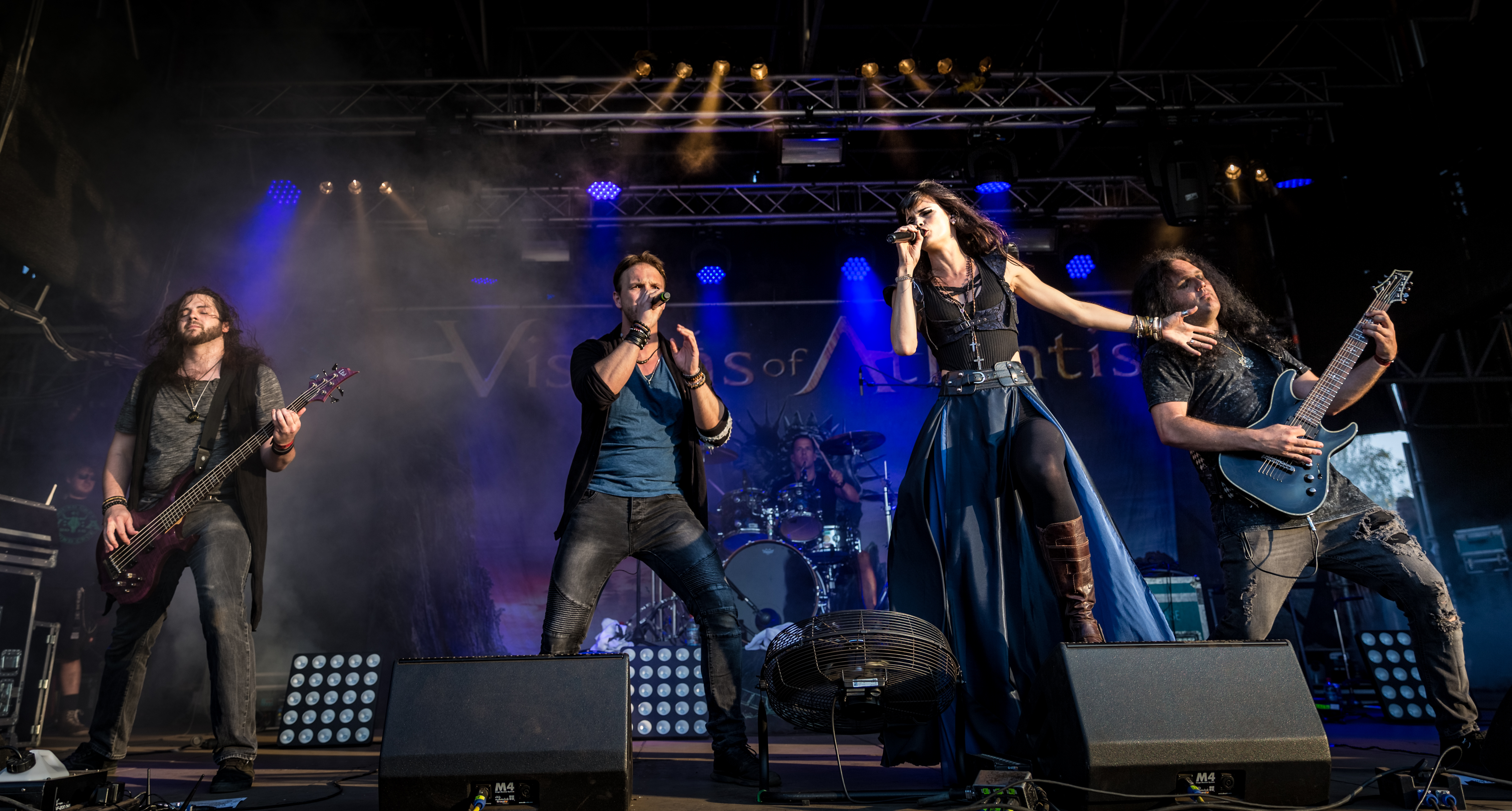 Visions of Atlantis - Wacken Open Air 2018